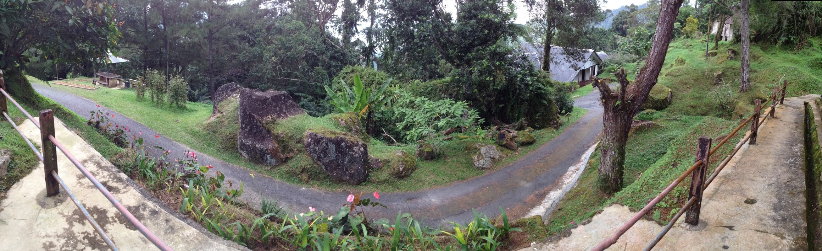 Panor Playground